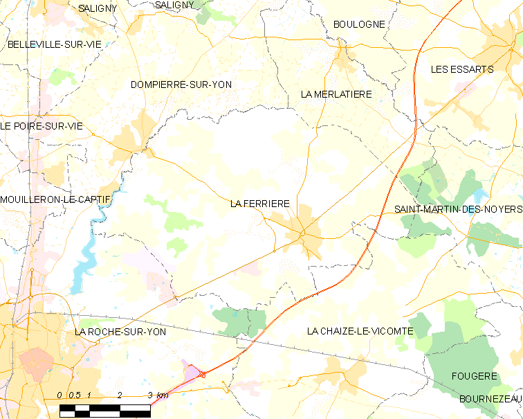 Map of French municipality La Ferrière